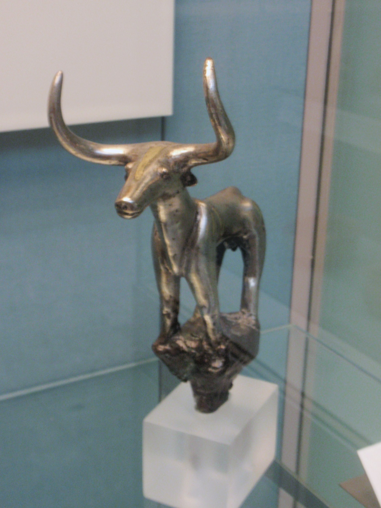 silver hittite bull figure,alacahöyük 2300bc-British Museum